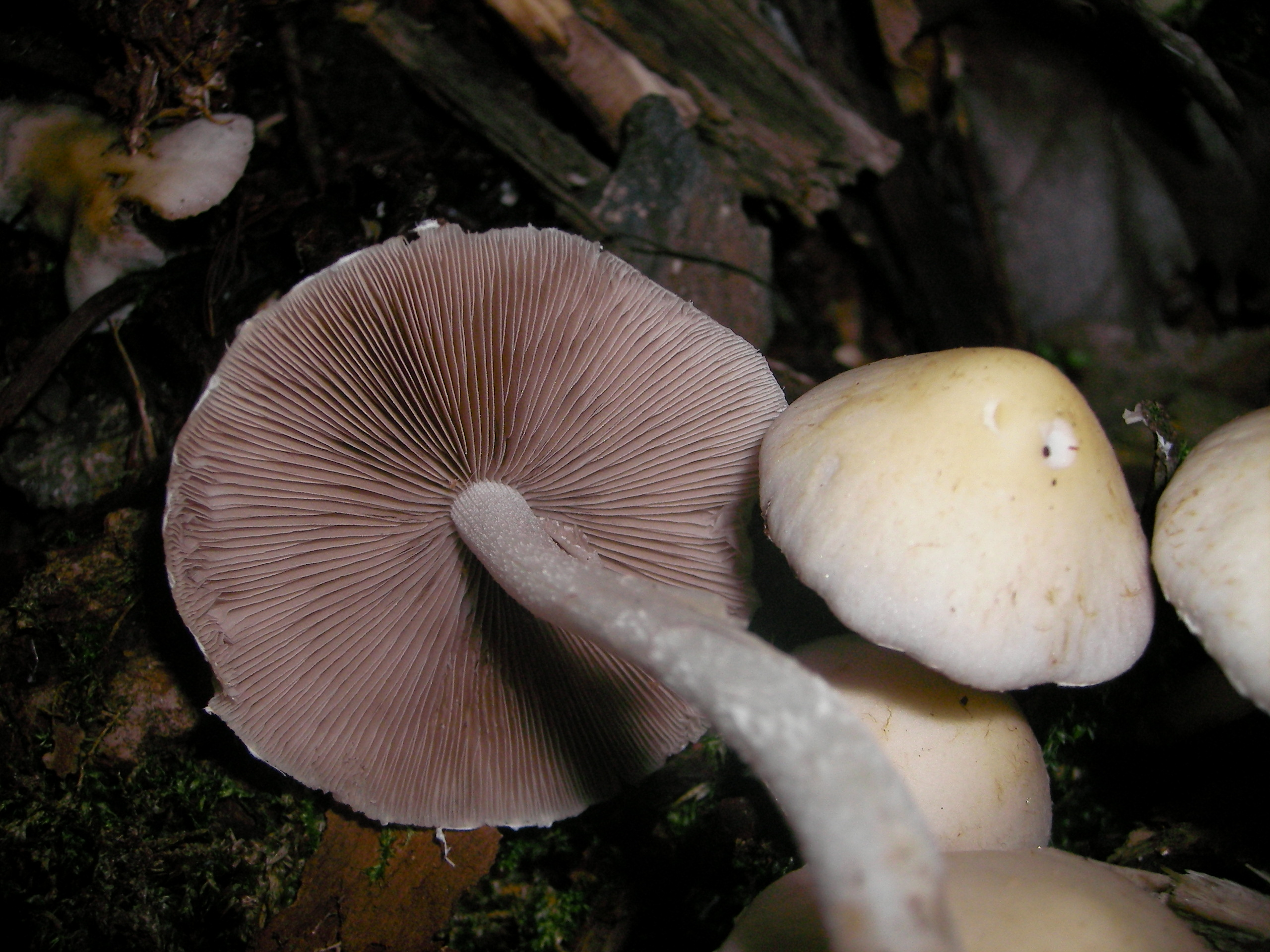 Mushroom